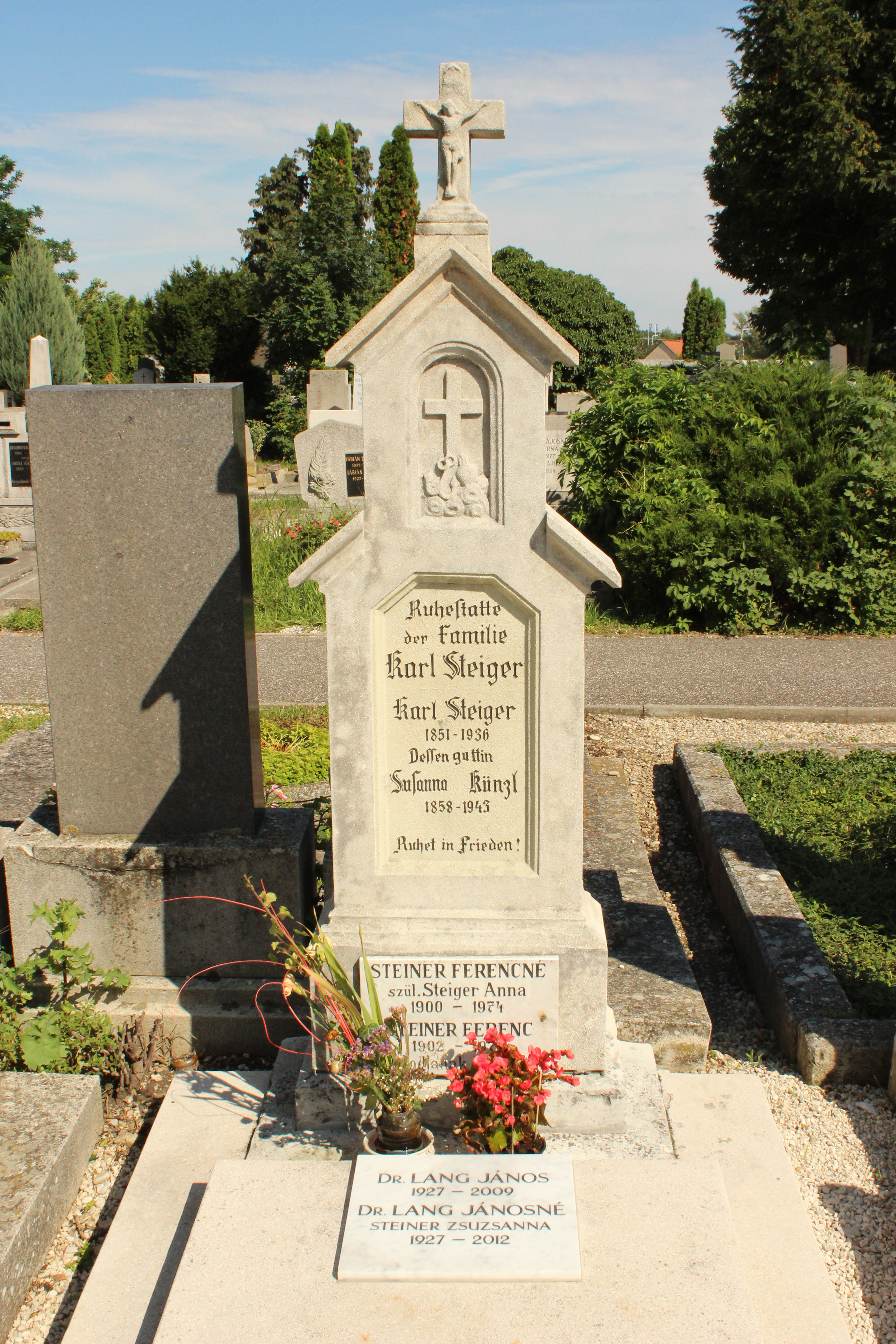 The grave of Lang János and Jánosné Lang (Zsuzsanna Steiner). (Evangelical Cemetery, Sopron, Hungary)